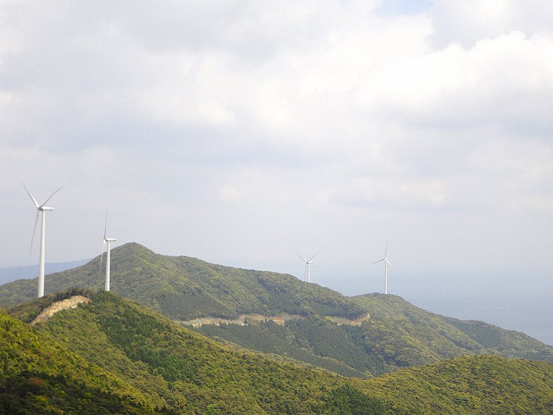 The Tanna Observation Station, located in the Tanna hills, is a small deck and picnic area, from which, a view of the island can be seen. Nearby are the windmills, a landmark for much of Nakadori Island.